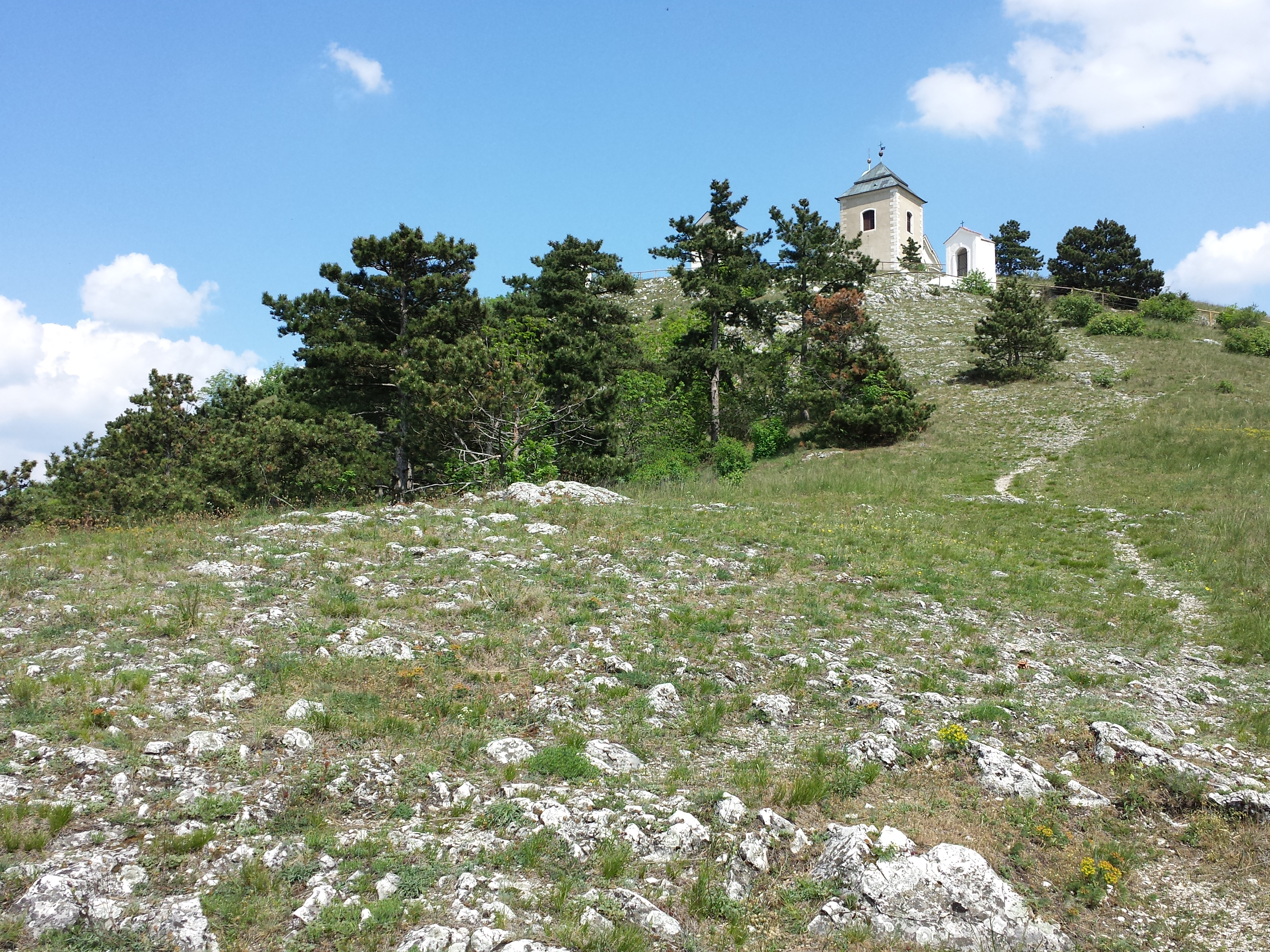 Location: Svatý kopeček, Mikulov, Jihomoravský kraj, Czech Republic - 363 m a.s.l. Rock steppe